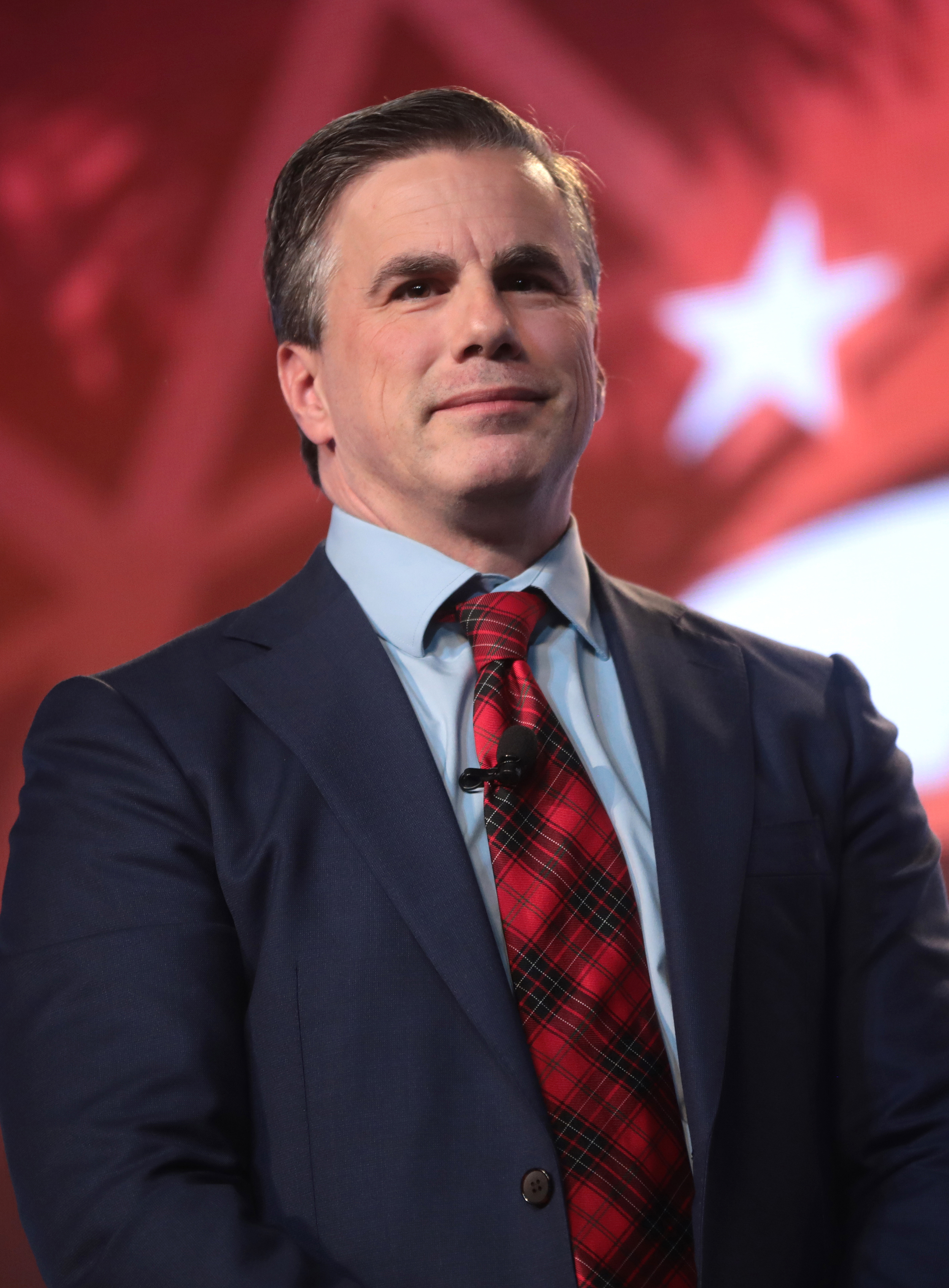 Tom Fitton speaking at an event in West Palm Beach, Florida.